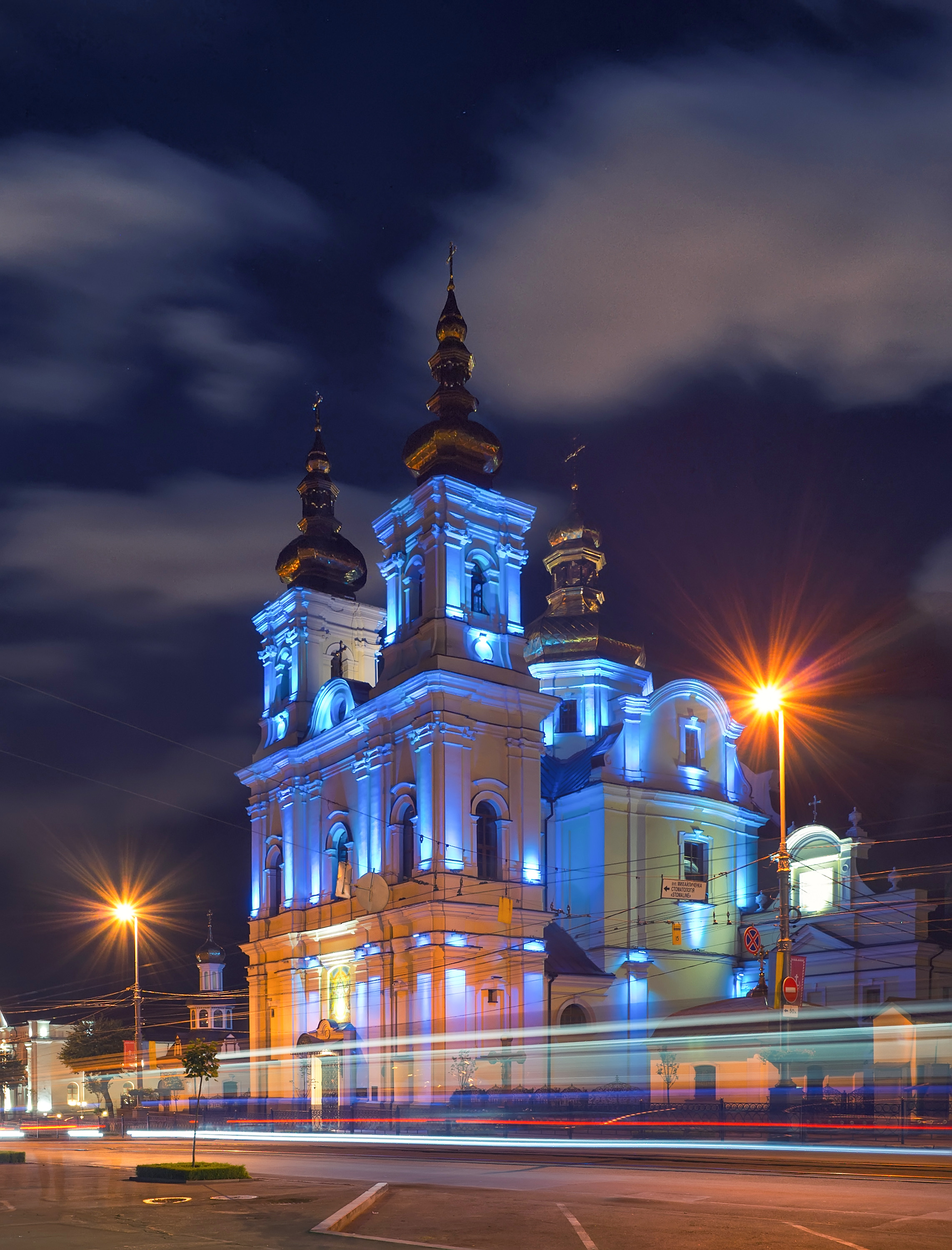 Dominican church, Vinnytsia, Ukraine